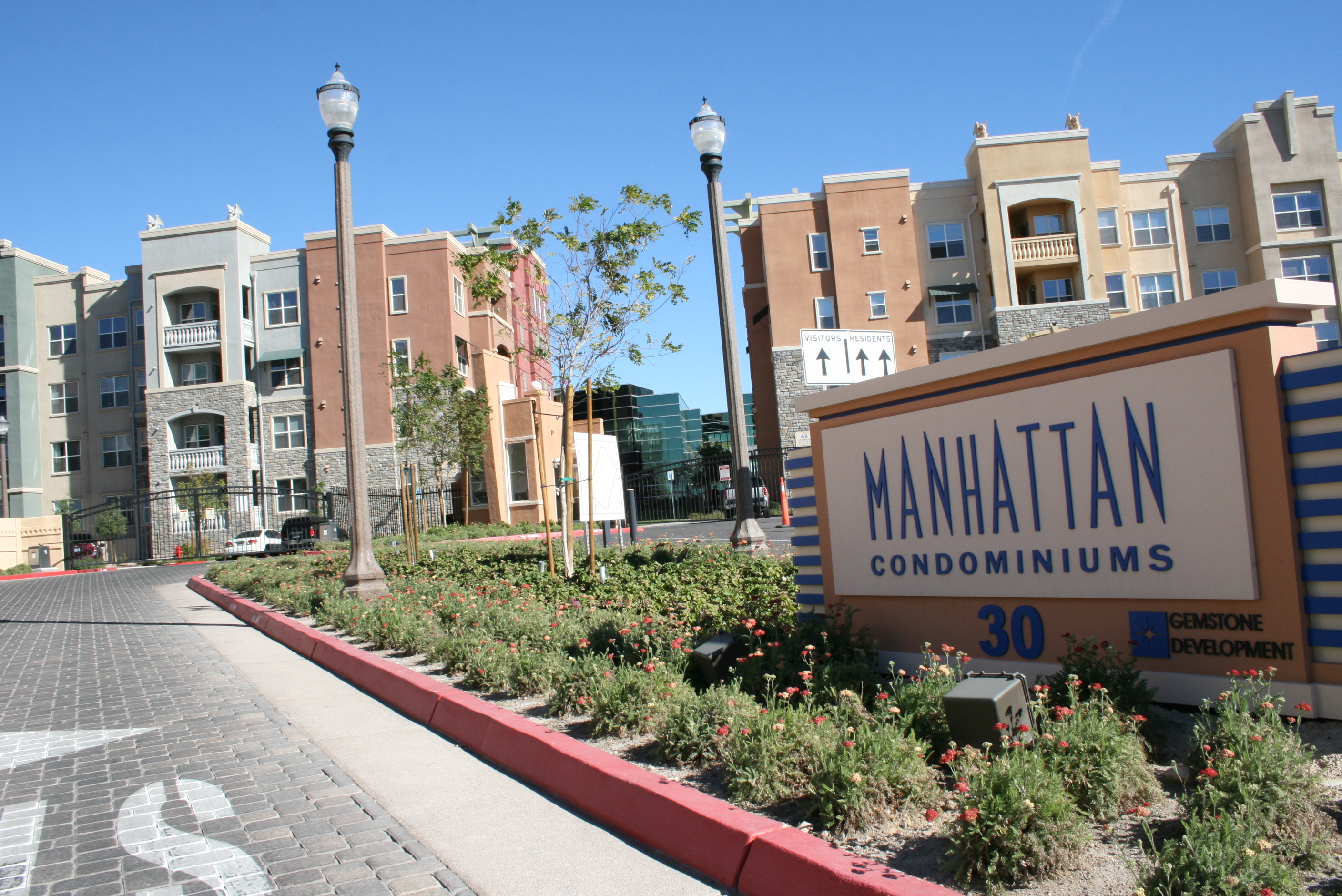 Entrance to Manhattan condominiums in Las Vegas.